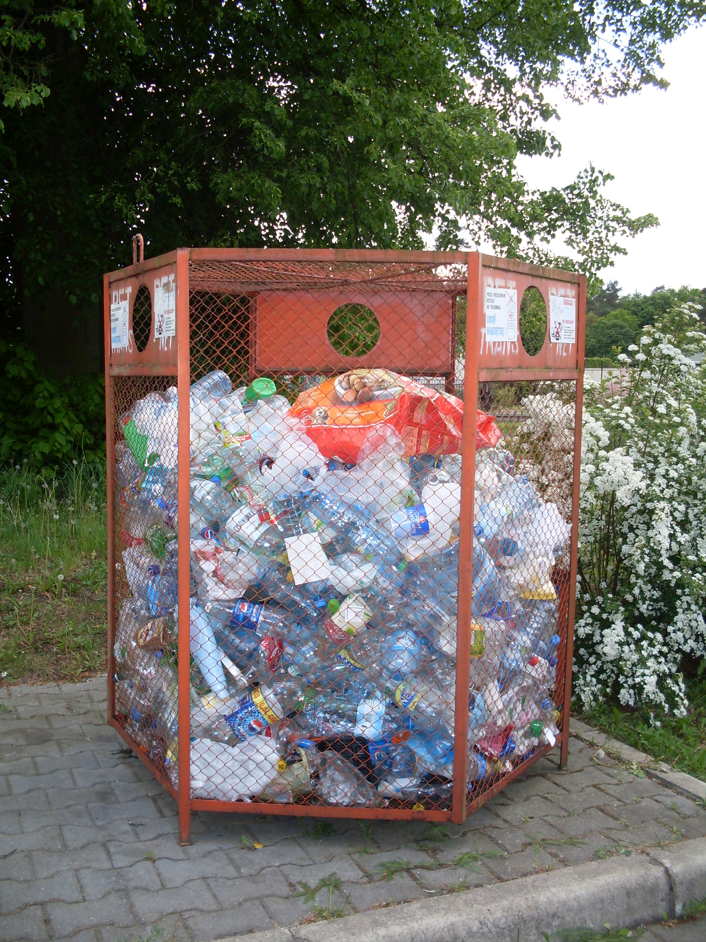 Trash bin in Pilchowo near Police and Szczecin, Poland.